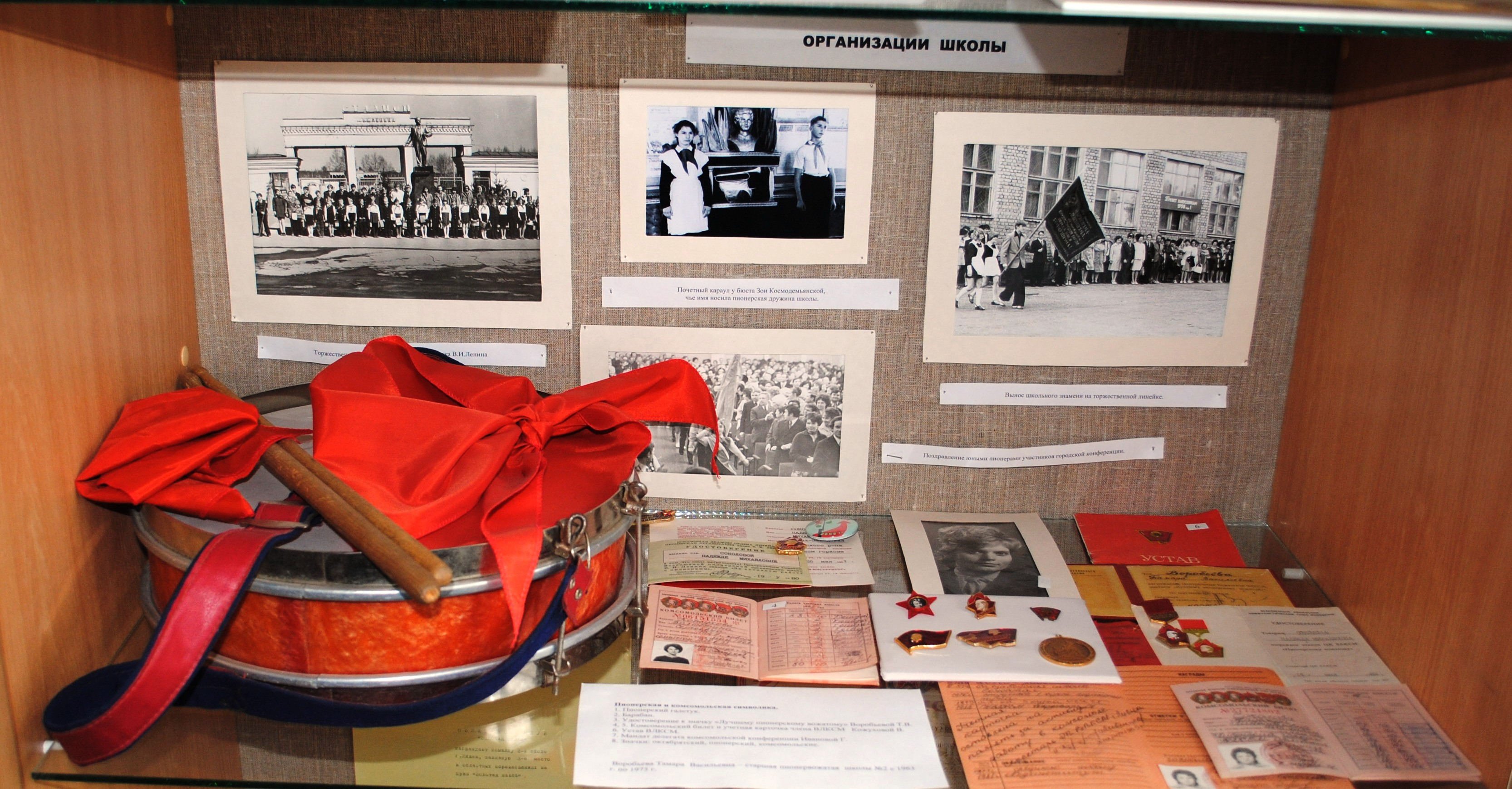 History Museum of Livny